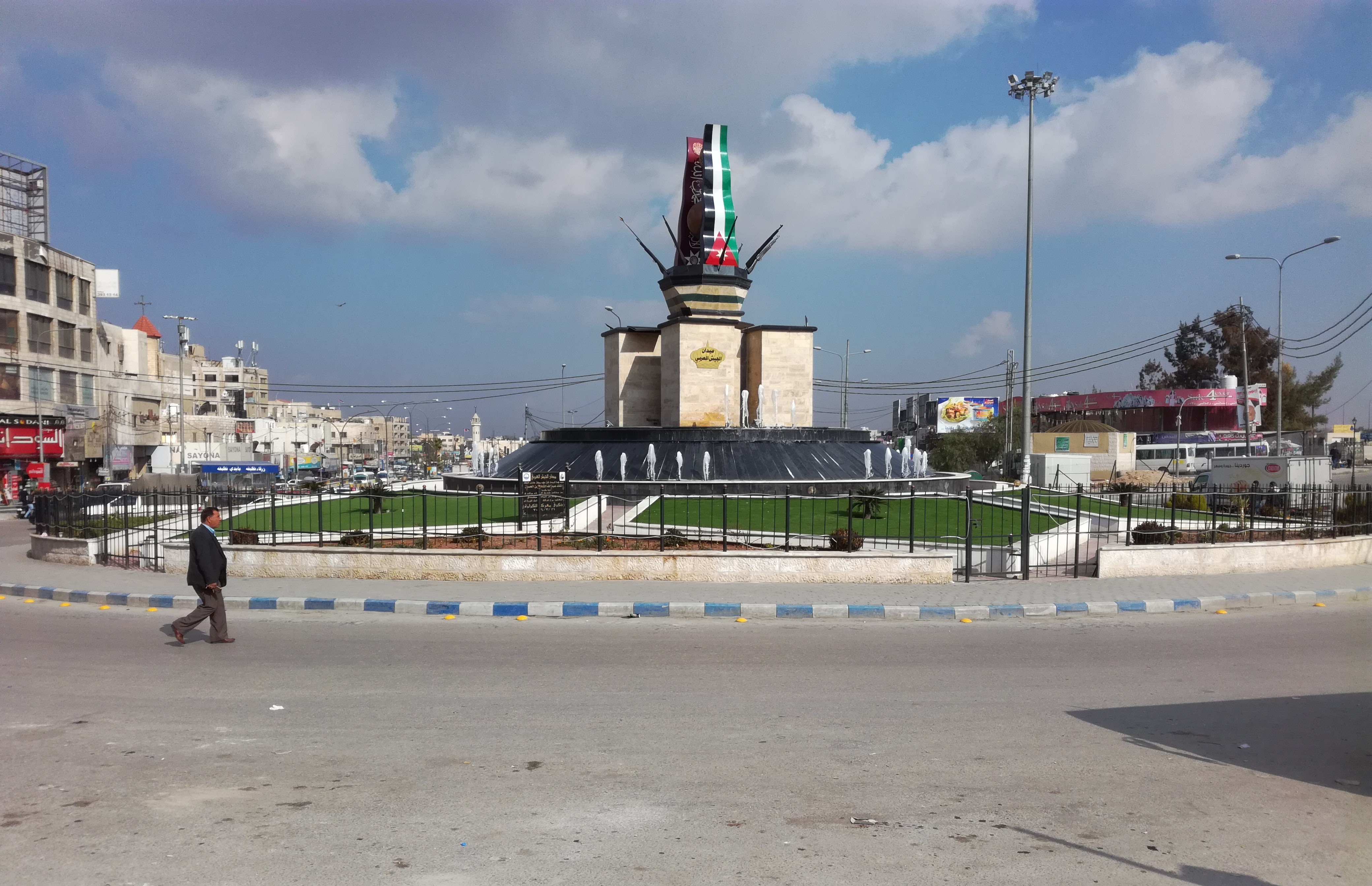 Arab Army Square at the entrance of the city of Zarqa